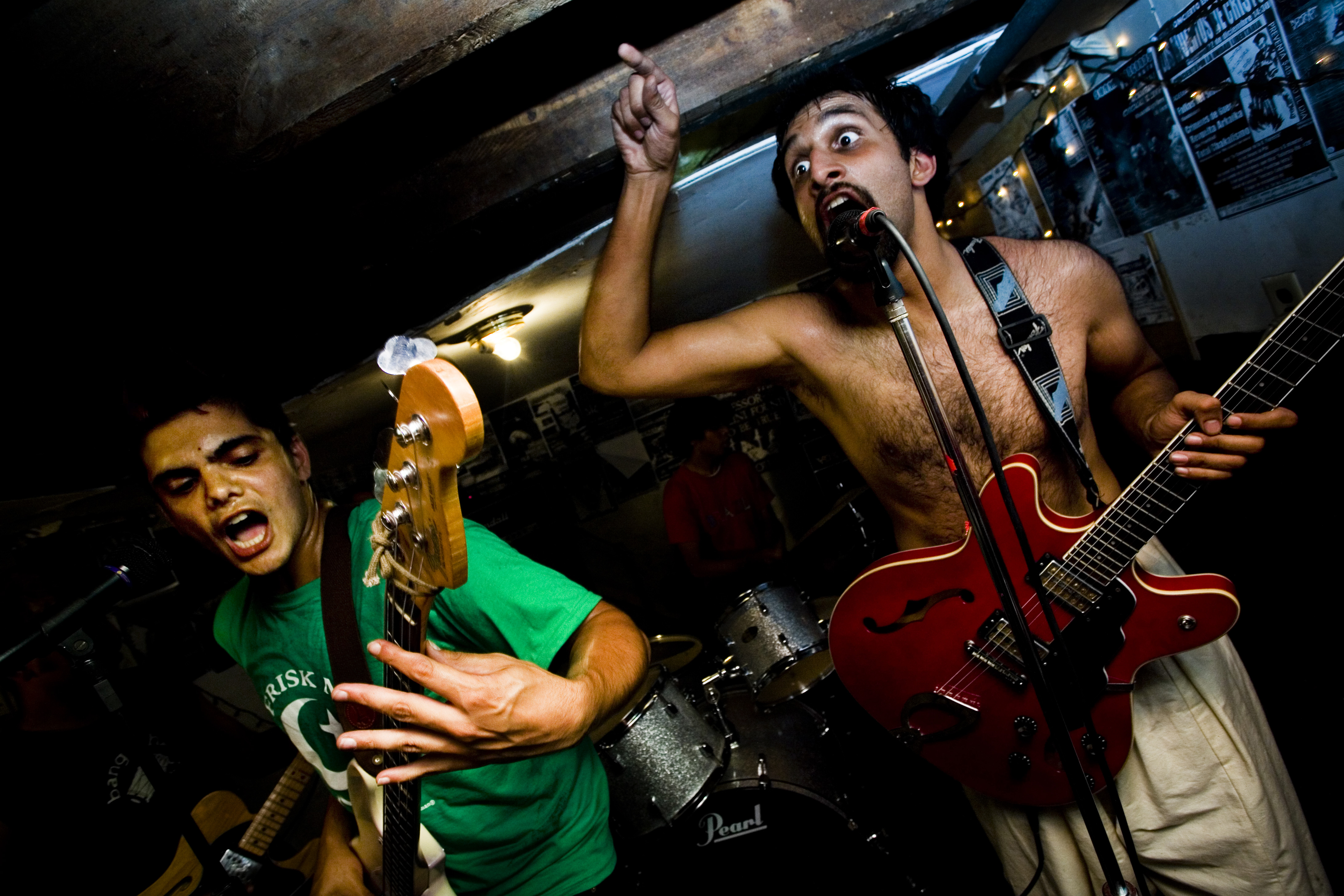 Basim Usmani and Shahjehan Khan, from the Kominas, performs at La Casa Maladita in Chicago. Other bands performing include Box Cutter Surprize, The Kominas, Omar Waqar and Secret Trail Five, None Taqwacore, Sangre de Abaho and Conde Nada. Followed by MC Riz (On The Road to Guantanamo). Despite police intervention, the show went on into the night.